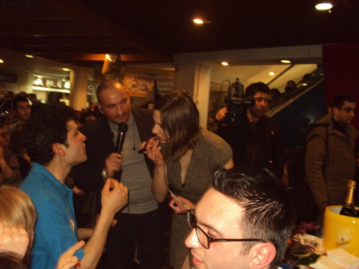 Marie-Ernestine Worch Alisa Fanday, Naples